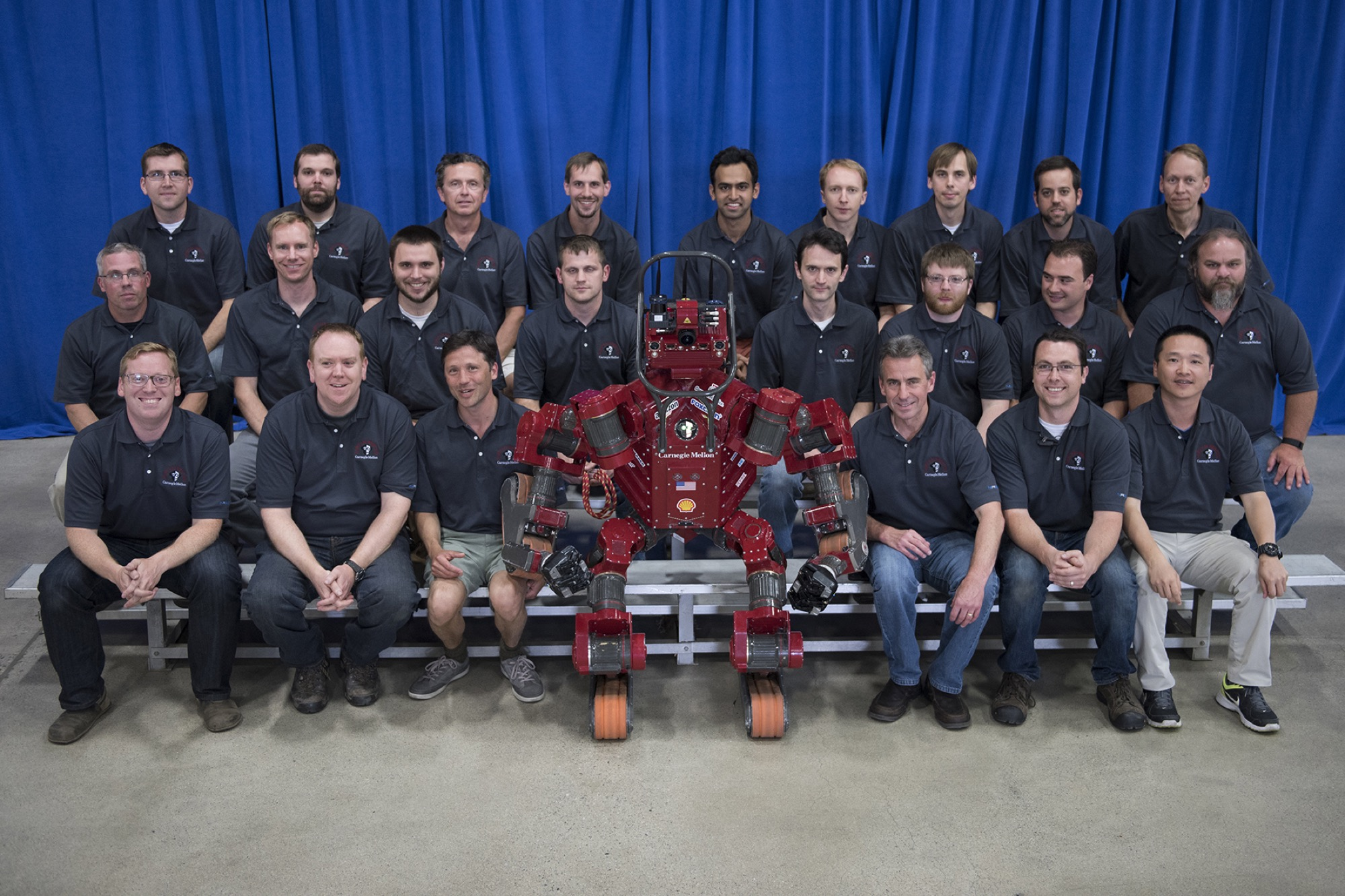 A group photo of Team Tartan Rescue and its robot CHIMP from Carnegie Mellon University in Pittsburgh, which stands for CMU highly intelligent mobile platform. Team Tartan Rescue won third prize at the DARPA Robotics Challenge Finals held June 5-6, 2015, in Pomona, California, USA.)